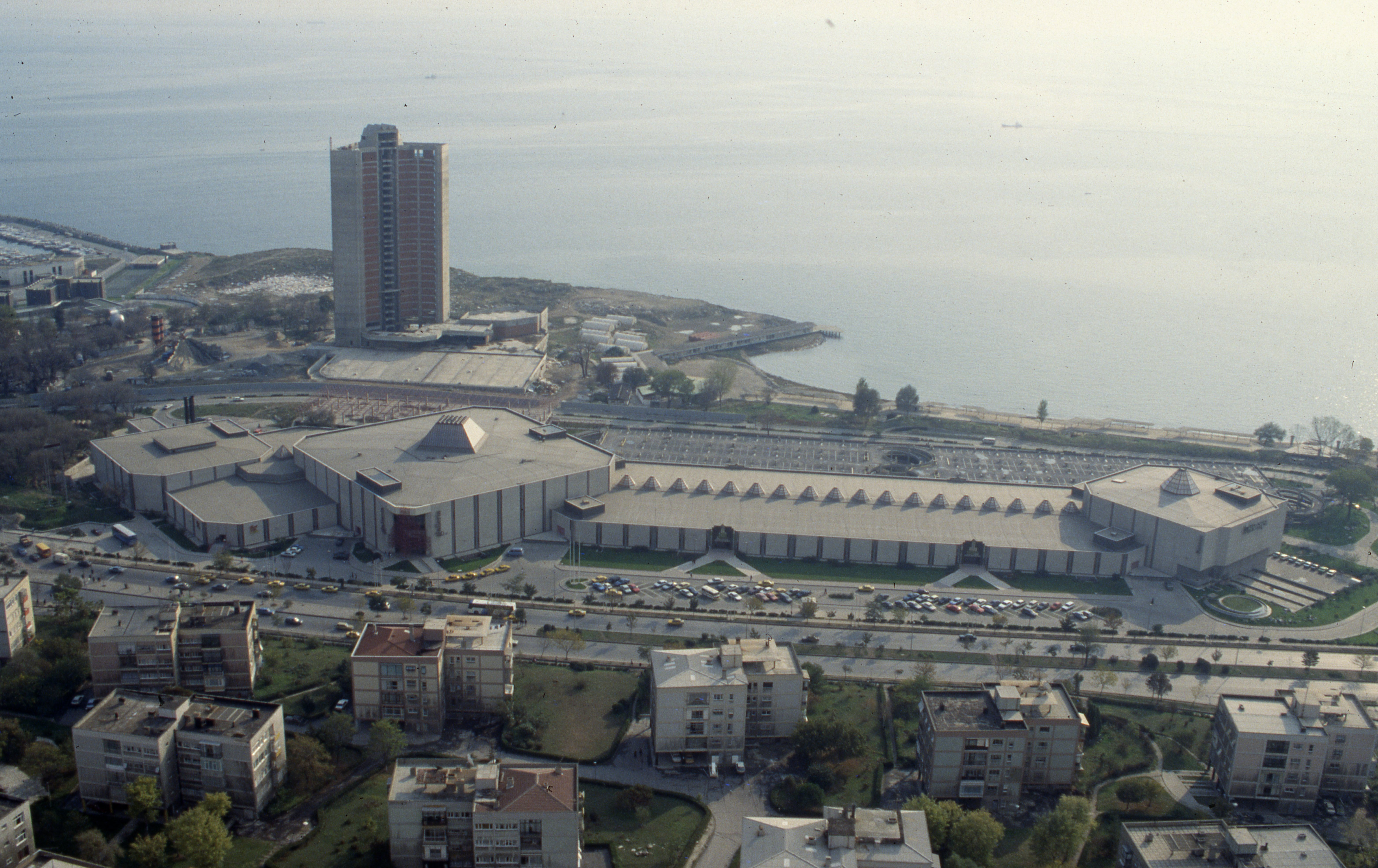 Hayati Tabanlıoğlu designed Galleria, the first modern shopping mall of Turkey between 1981-1986. The building, which opened in 1988 as part of the Ataköy Complex initiated by Turgut Özal, is now considered a subject of reference for the changes Turkey faced in those years. Galleria will soon be demolished because of a new project, planned to include residences, hotels and shopping malls, designed by Murat Tabanlıoğlu, Hayati Tabanlıoğlu’s son. SALT Research, Hayati Tabanlıoğlu Archive Hayati Tabanlıoğlu, Türkiye’nin ilk modern AVM’si olan Galleria’yı 1981-1986 yıllarında tasarladı. Turgut Özal’ın girişimiyle Ataköy Turizm Kompleksi projesi çerçevesinde 1988’de açılan yapı, Türkiye’nin o yıllarda yaşadığı değişimin önemli öznelerindendir. Galleria’nın, Hayati Tabanlıoğlu’nun oğlu Murat Tabanlıoğlu tarafından tasarlanan ve rezidans, otel ve alışveriş merkezlerinden oluşan yeni bir proje kapsamında yıkılması beklenmektedir. SALT Araştırma, Hayati Tabanlıoğlu Arşivi